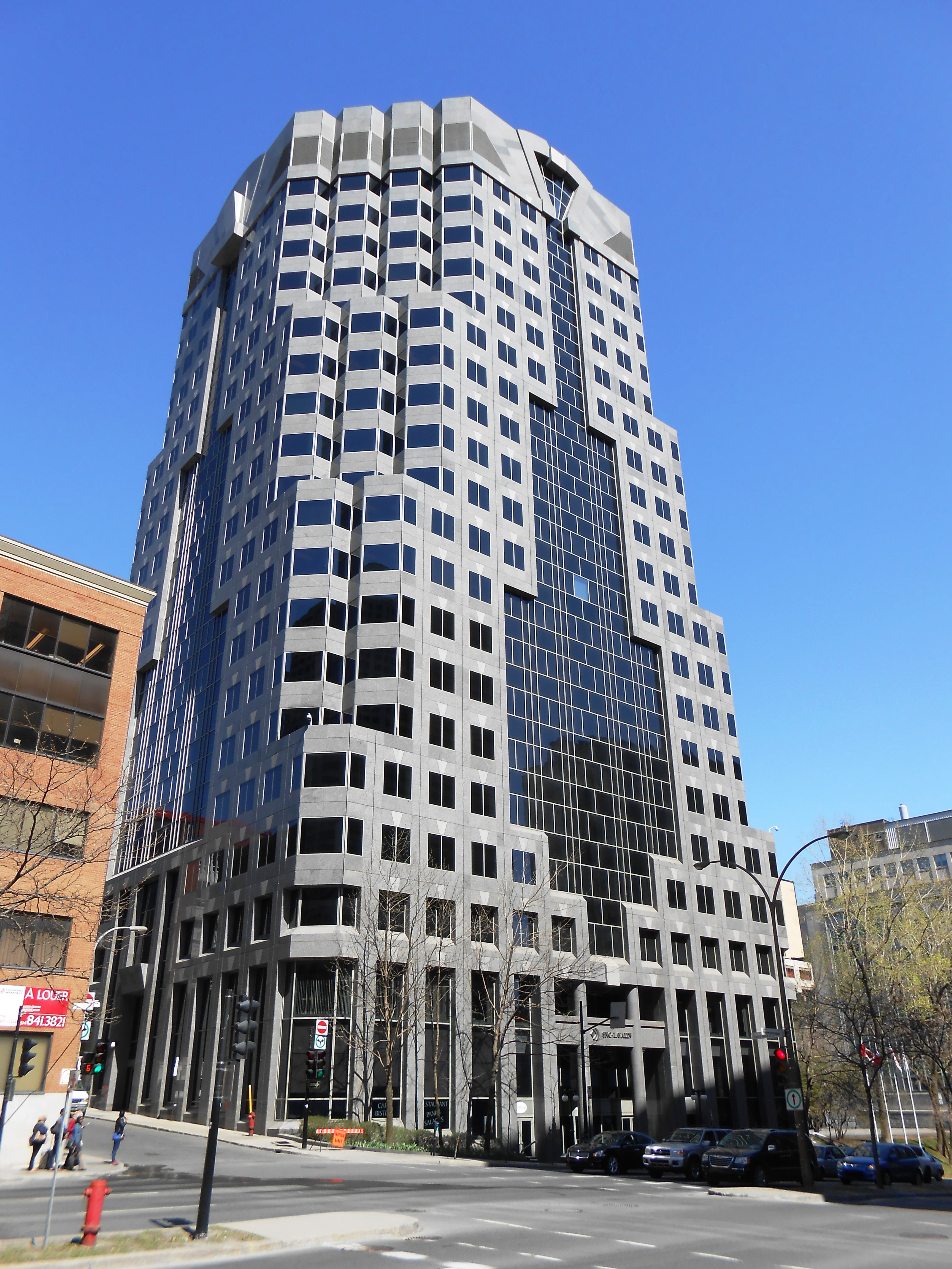 SNC Lavalin Headquarters, 455 René-levesque Boulevard West / 2 Place Félix Martin, Montréal